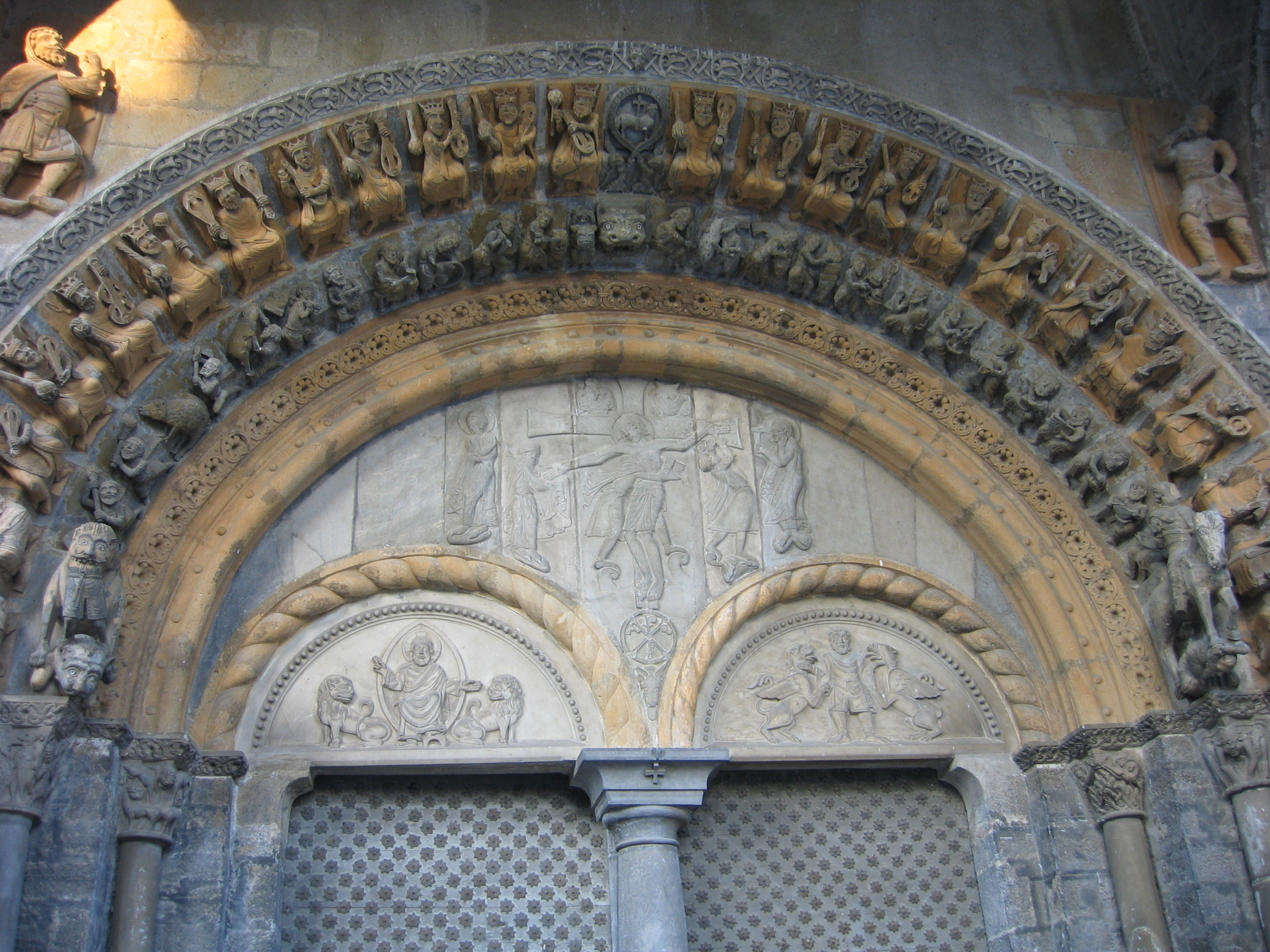 The portail of the church of Sainte-Marie in Oloron-Sainte-Marie